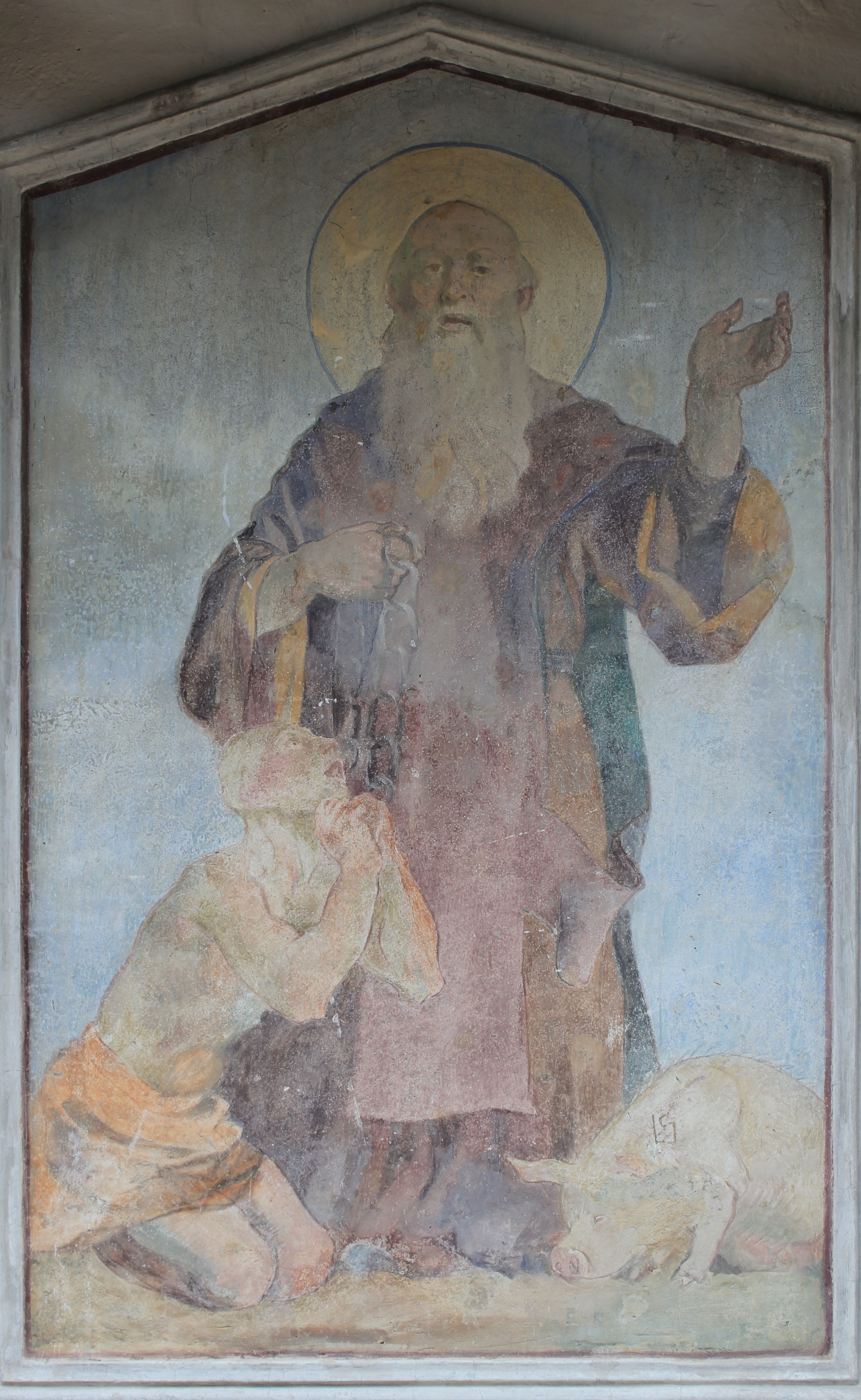 Parish church Möllbrücke in the community of Lurnfeld